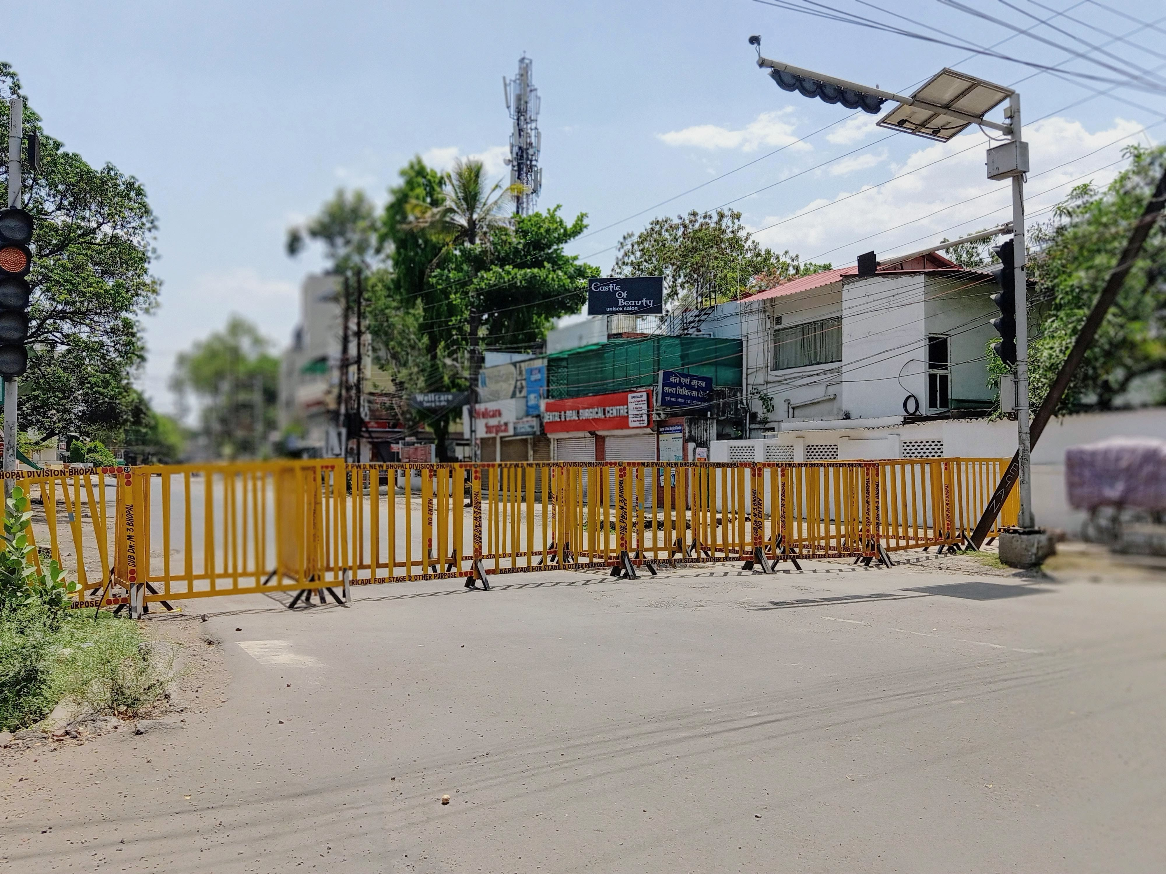 Zone wise lockdown in new Bhopal due to Covid-19